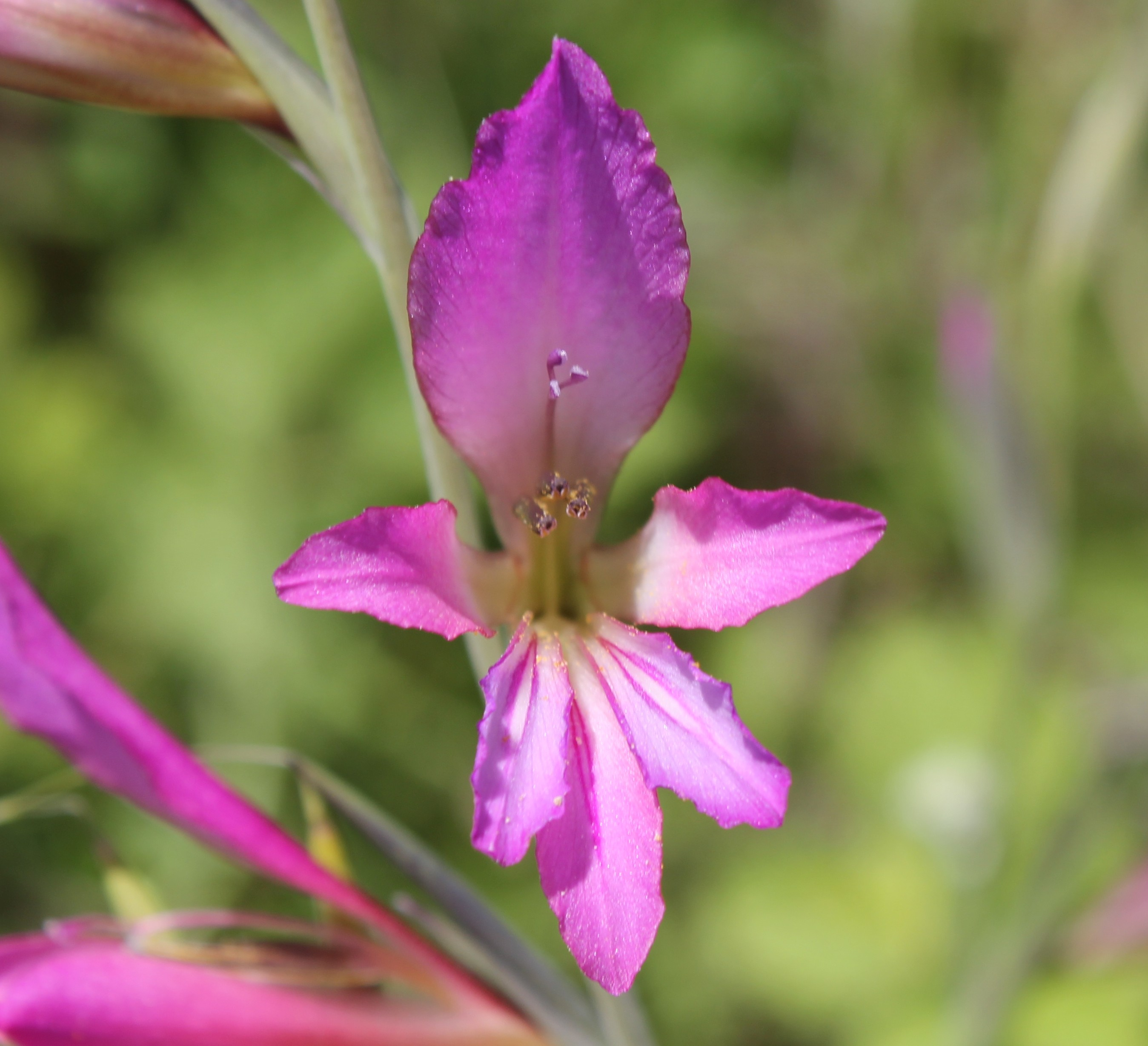 Gladiolus italicus tepals